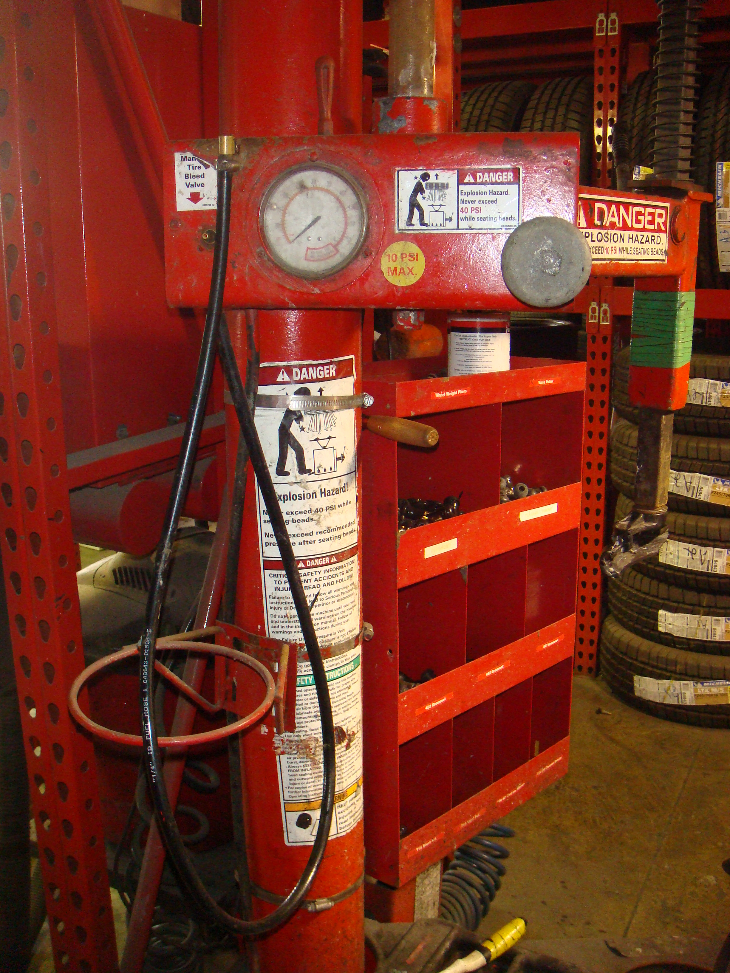 Valve system on a Coats Rim Clamp Tire Changer including the air pressure gauge and air hose